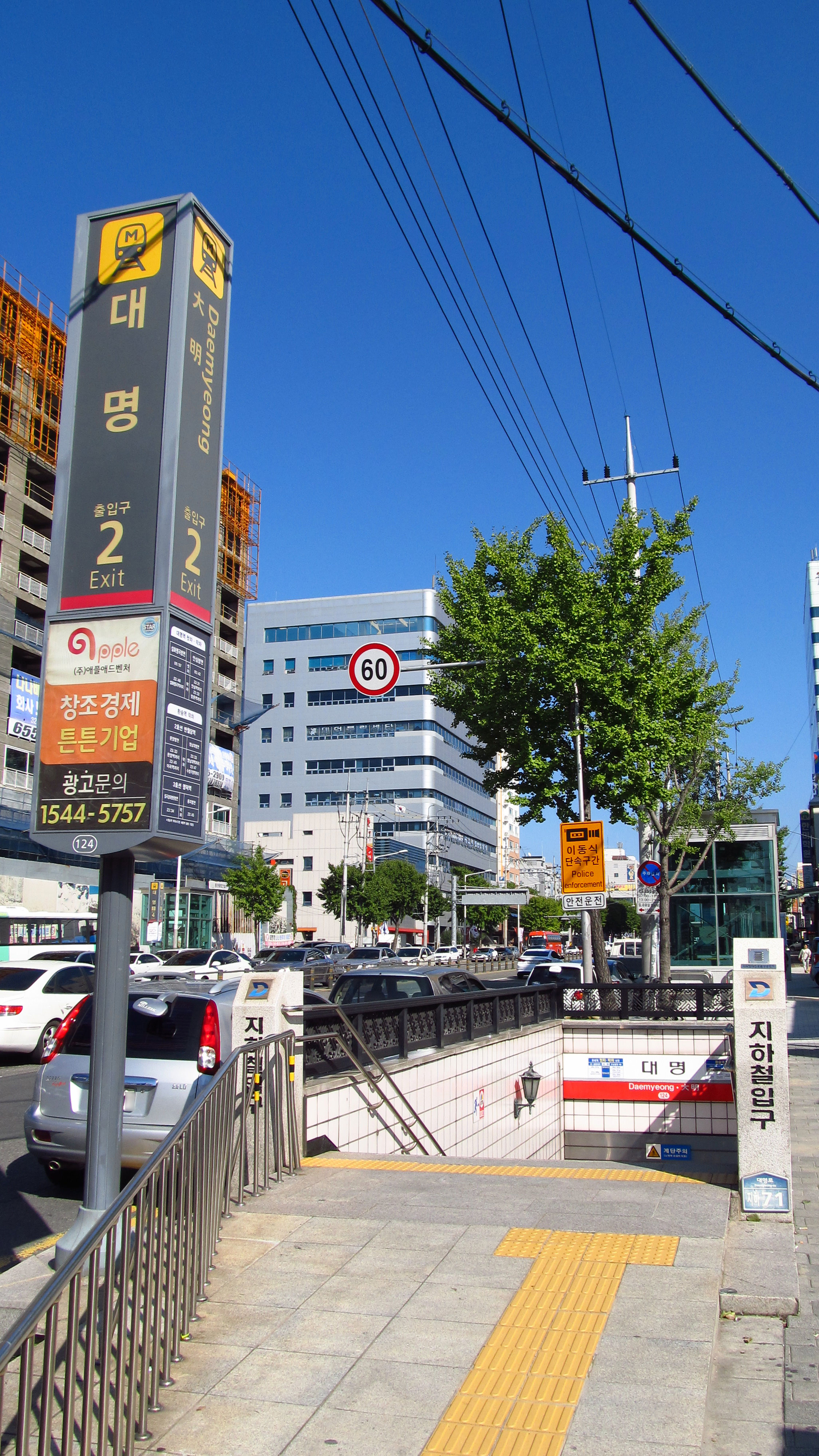 The no.2 entrance to Daemyeong Station on the Daegu Metro Line 1